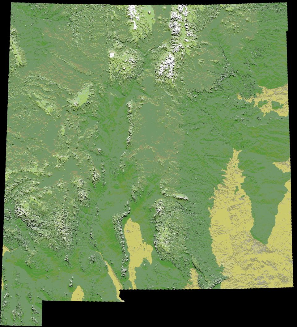 Image:Digital-elevation-map-new-mexico.gif rotated and cropped